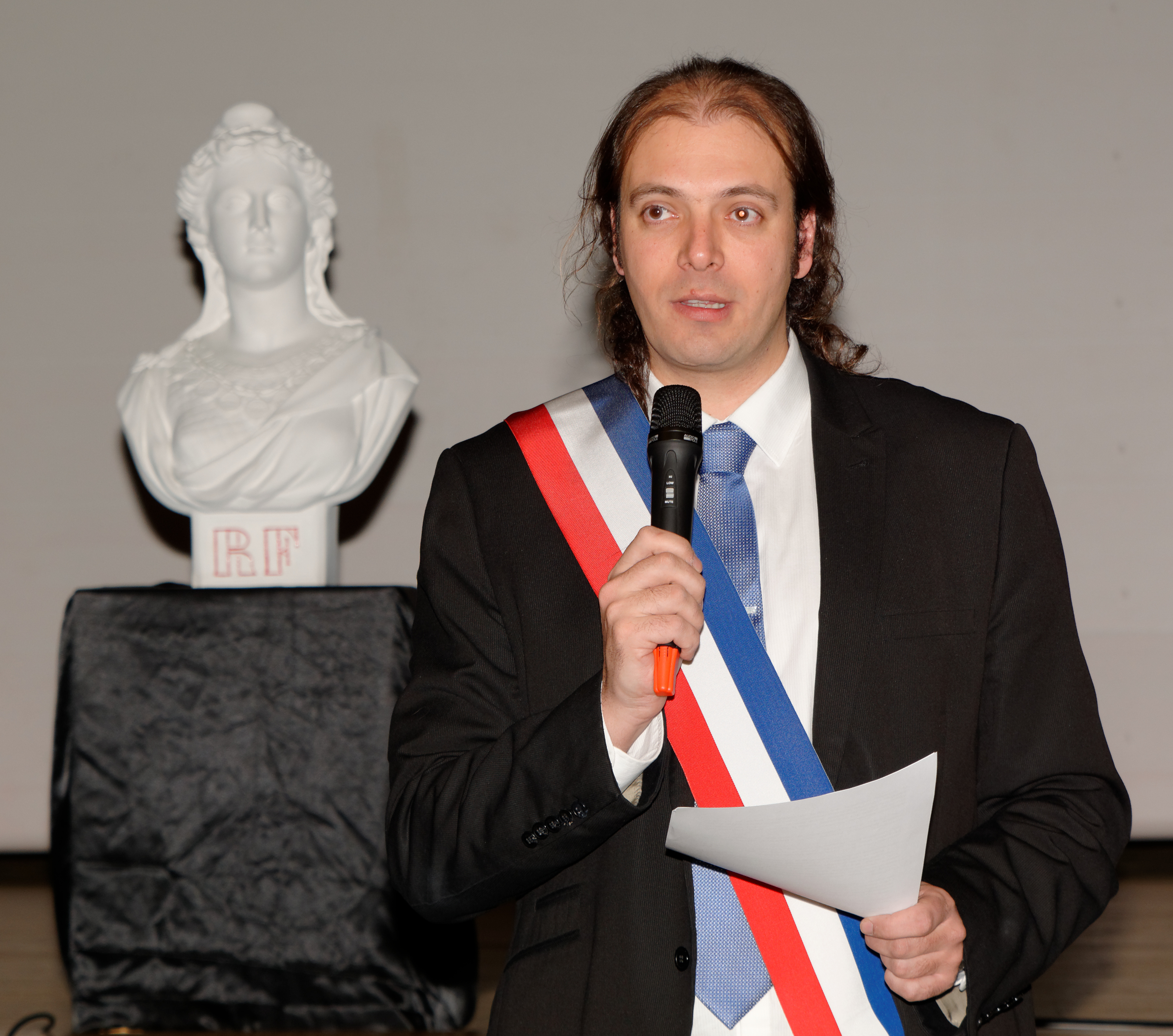 Personality rights warningAlthough this work is freely licensed or in the public domain, the person(s) shown may have rights that legally restrict certain re-uses unless those depicted consent to such uses. In these cases, a model release or other evidence of consent could protect you from infringement claims.